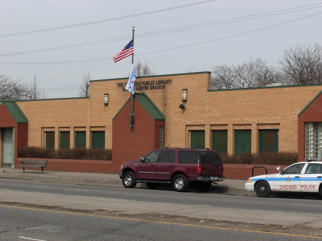 North Austin Public Library